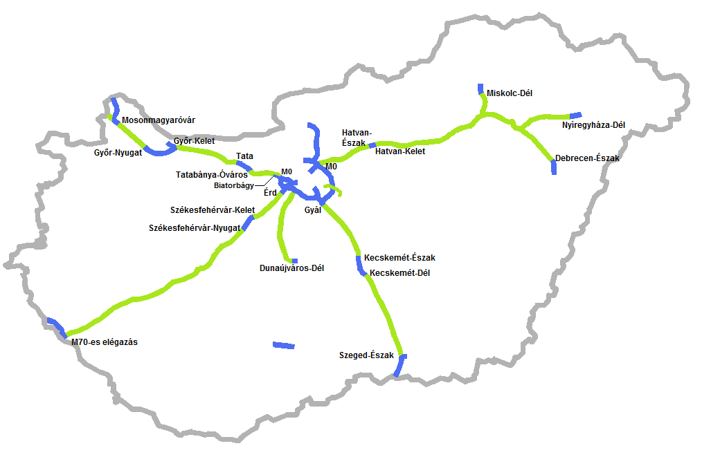 Toll and tollfree motorways in Hungary, 2008 decDark blue line:Motorways owned by the Hungarian state, free of chargeGreen line:fee payment by vignette